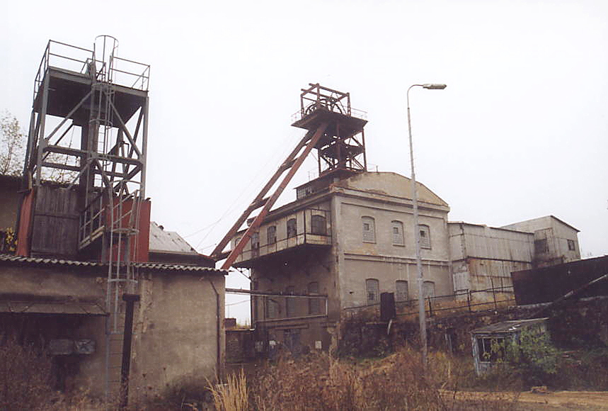 This image shows the former underground mine "Julius III." in Most, Czech Republic. The brown-coal-mine was in operation from 1882 to 1991. The extraction shaft is 186 m deep.